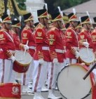 Atraksi Baru pada Seremoni Pergantian Pasukan Jaga Istana Kepresidenan